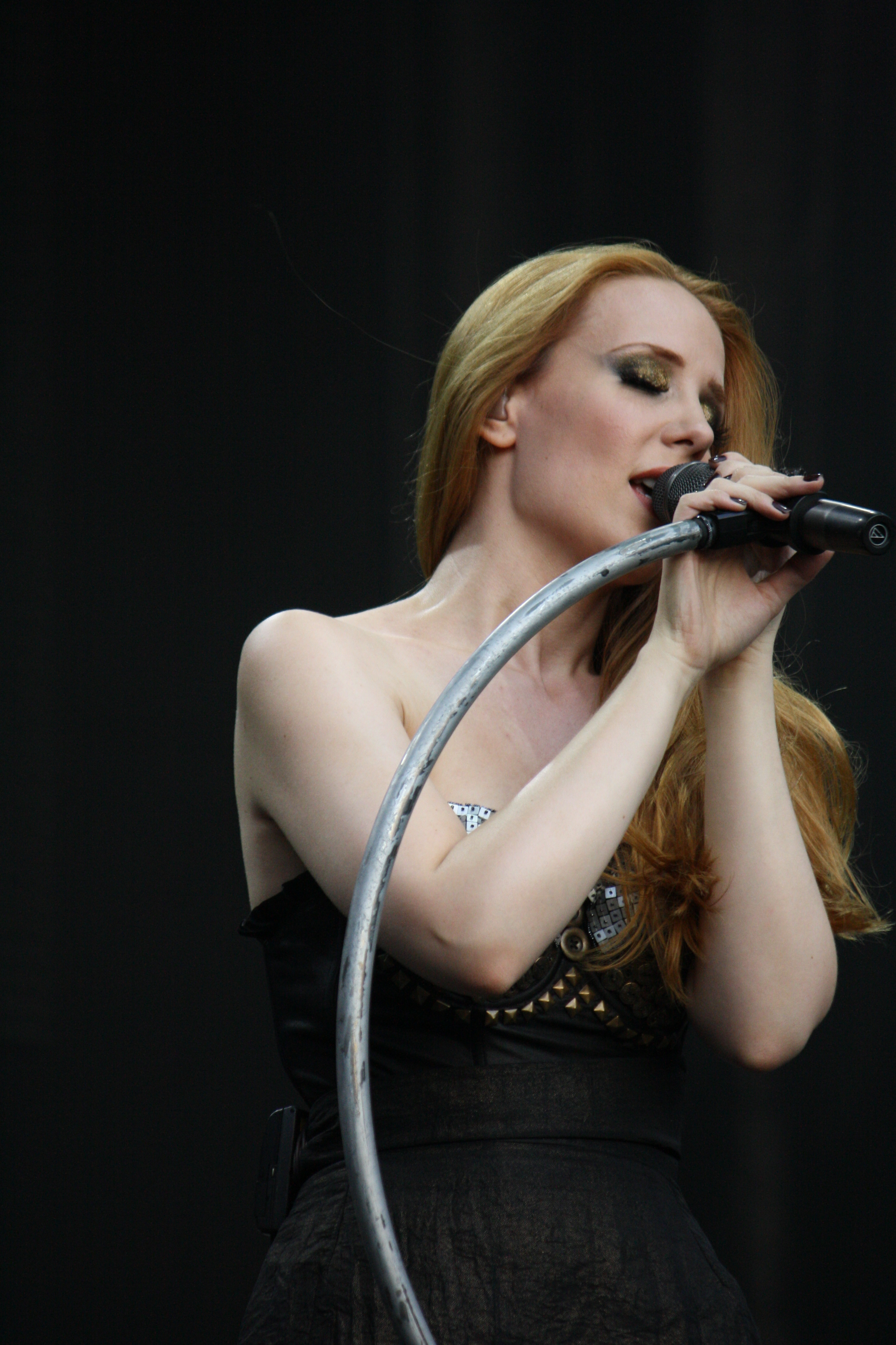 epica playing at Slovenia.